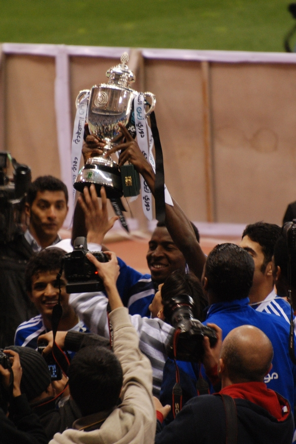 Al-Hilal champion 2010.